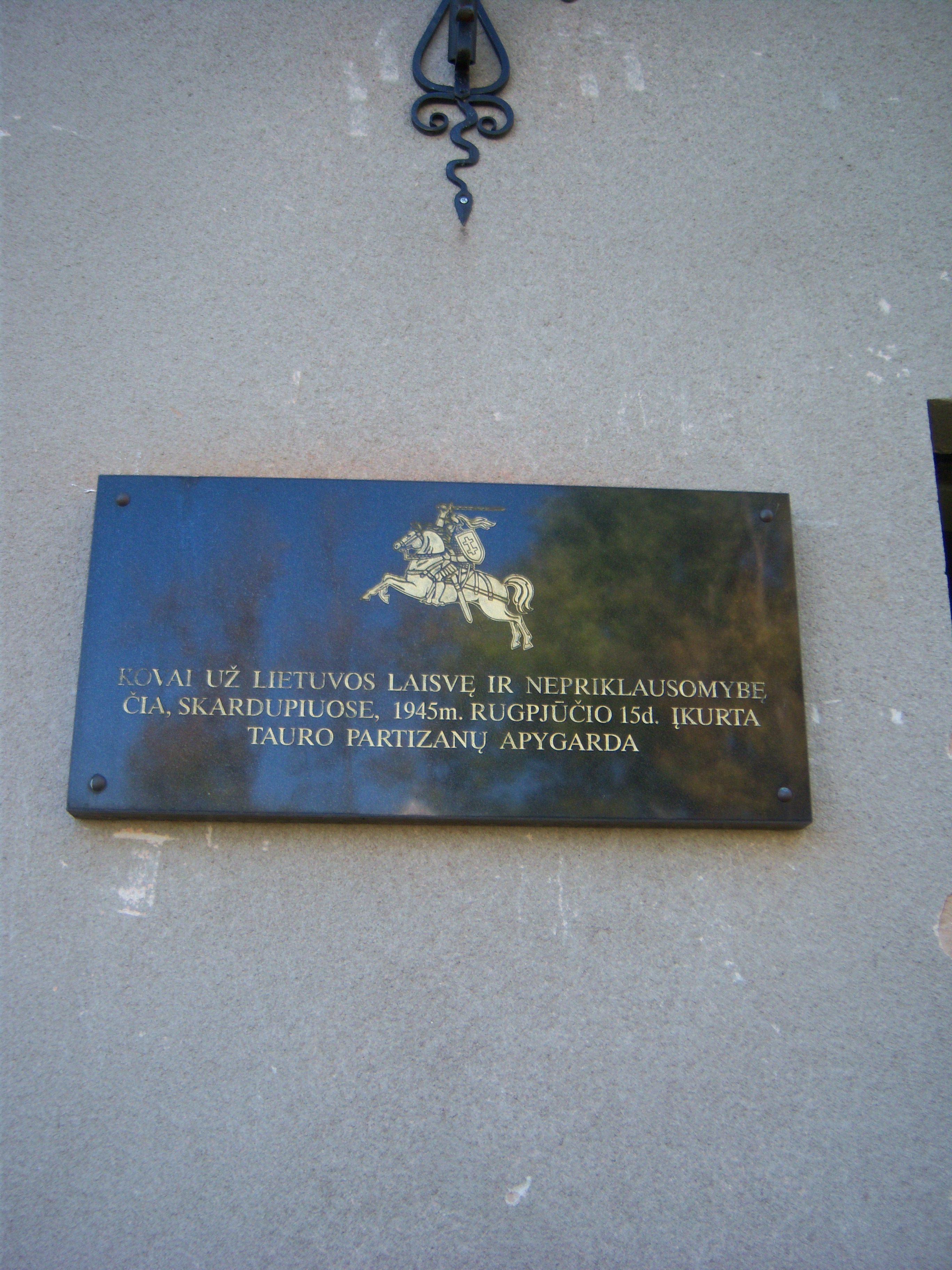 Memorial plaque on a former school, Skardupiai, Marijampolė District, Lithuania